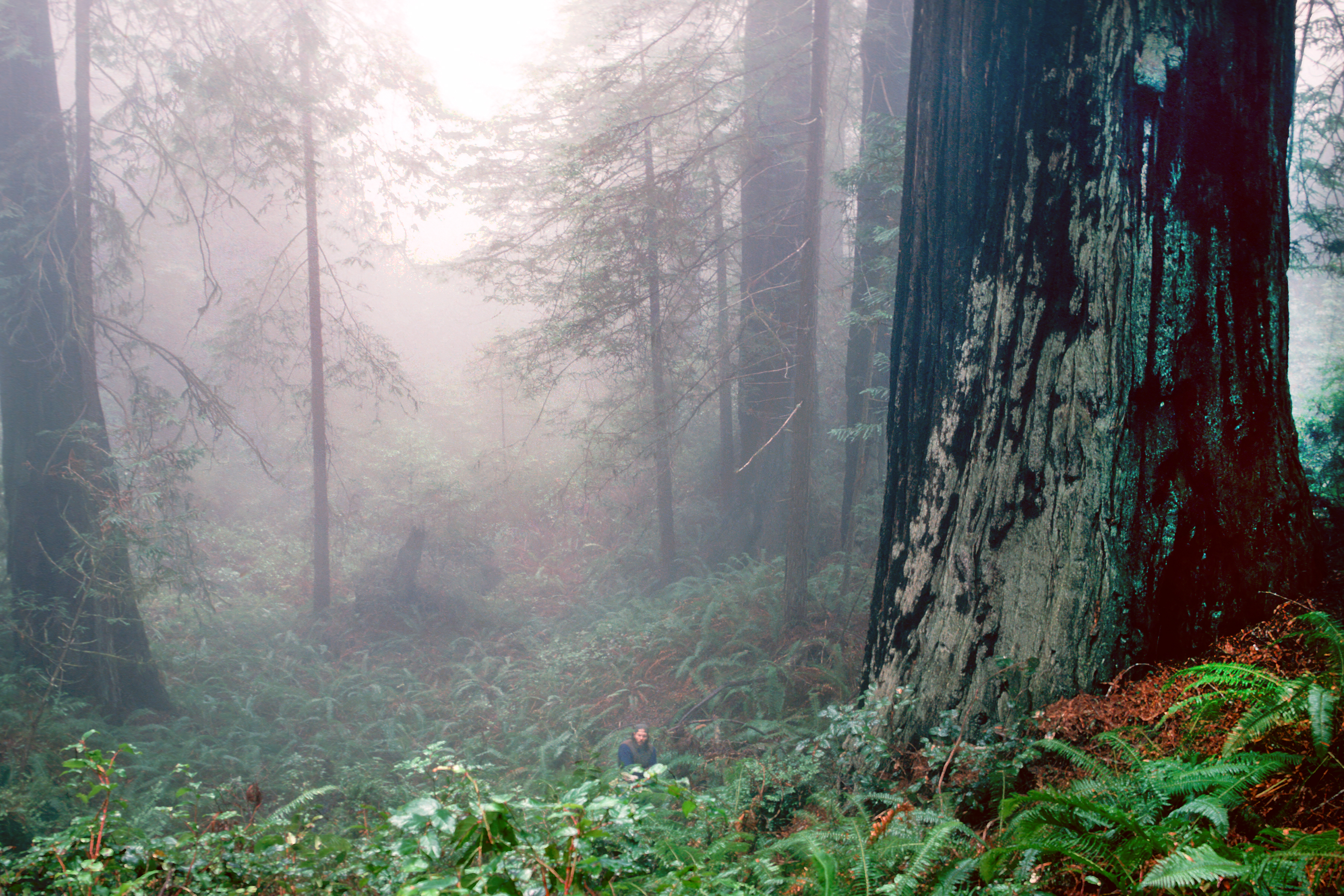 A giant tree in Headwaters Forest.